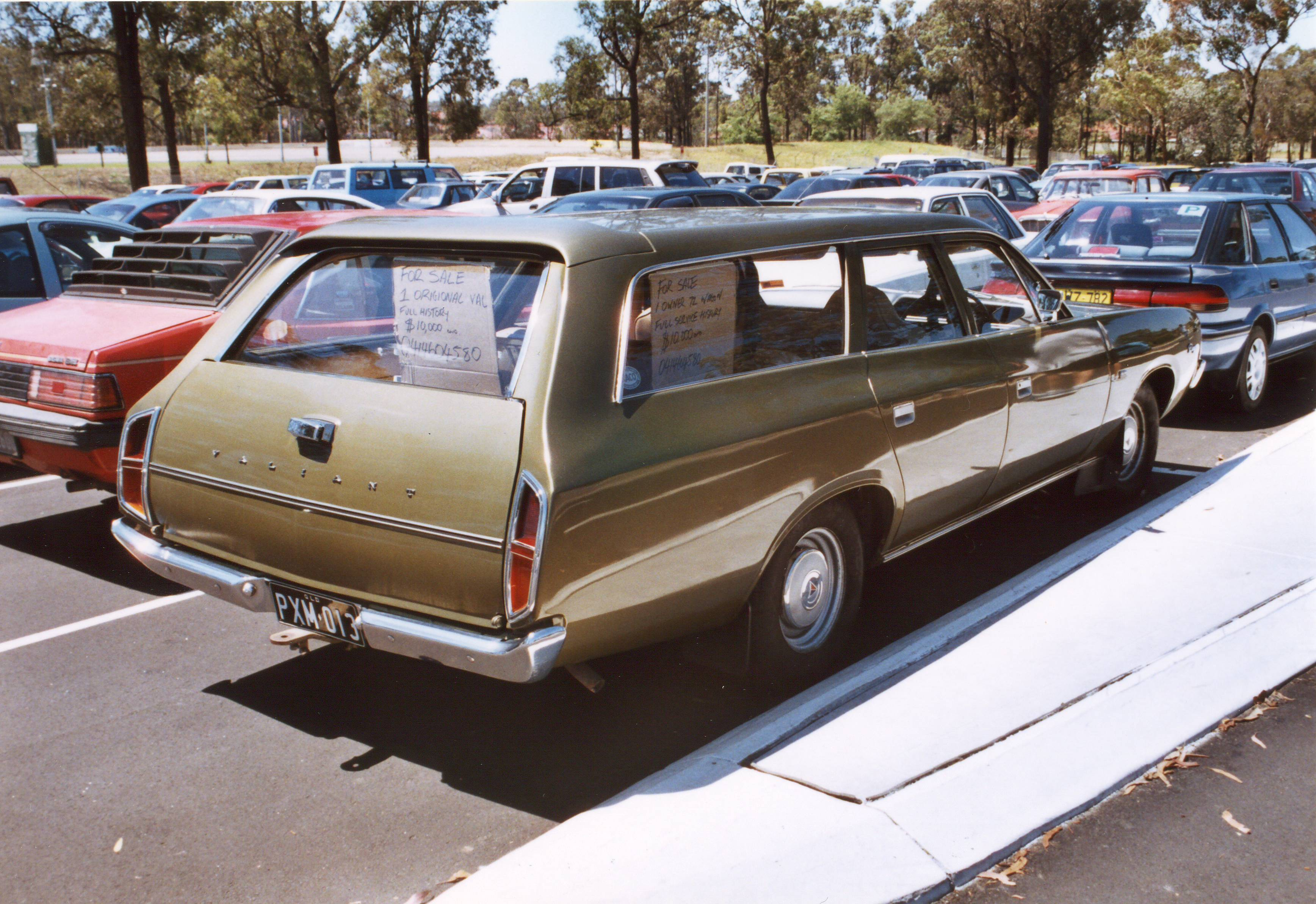 This image is a scan of a 35mm print taken in 2003 at the All Chrysler Day at Fairfield Showground